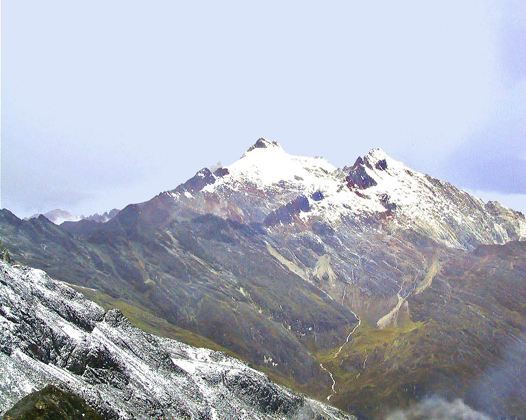 Pico Humboldt as seen from the Mérida cable car